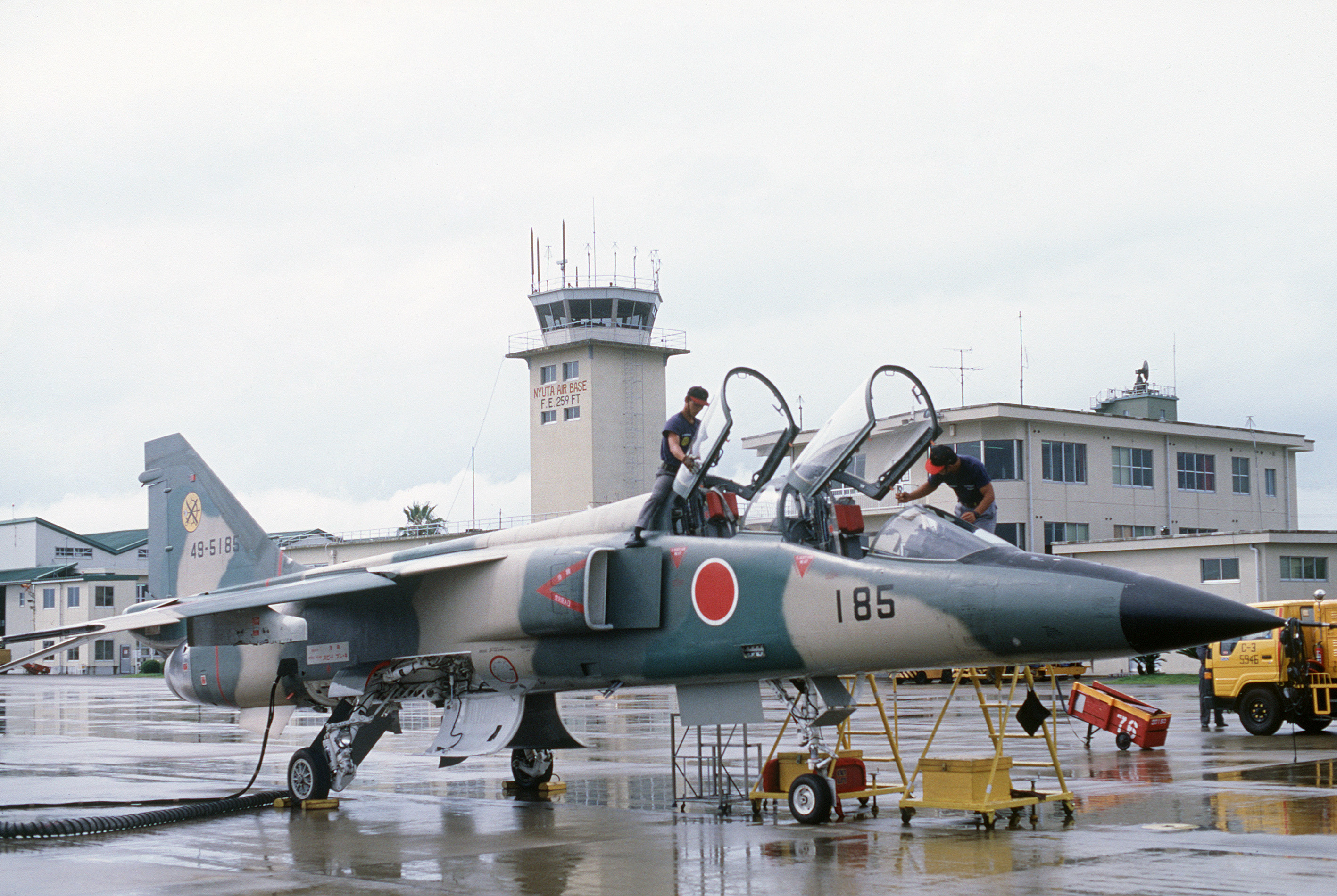 Japanese ground crewmen work on the canopies of a Japanese T-2 aircraft during Exercise COPE NORTH '86-4. US Air Force squadrons are engaging in dissimilar air combat training with Japan Air Self-Defense Force squadrons during the exercise.